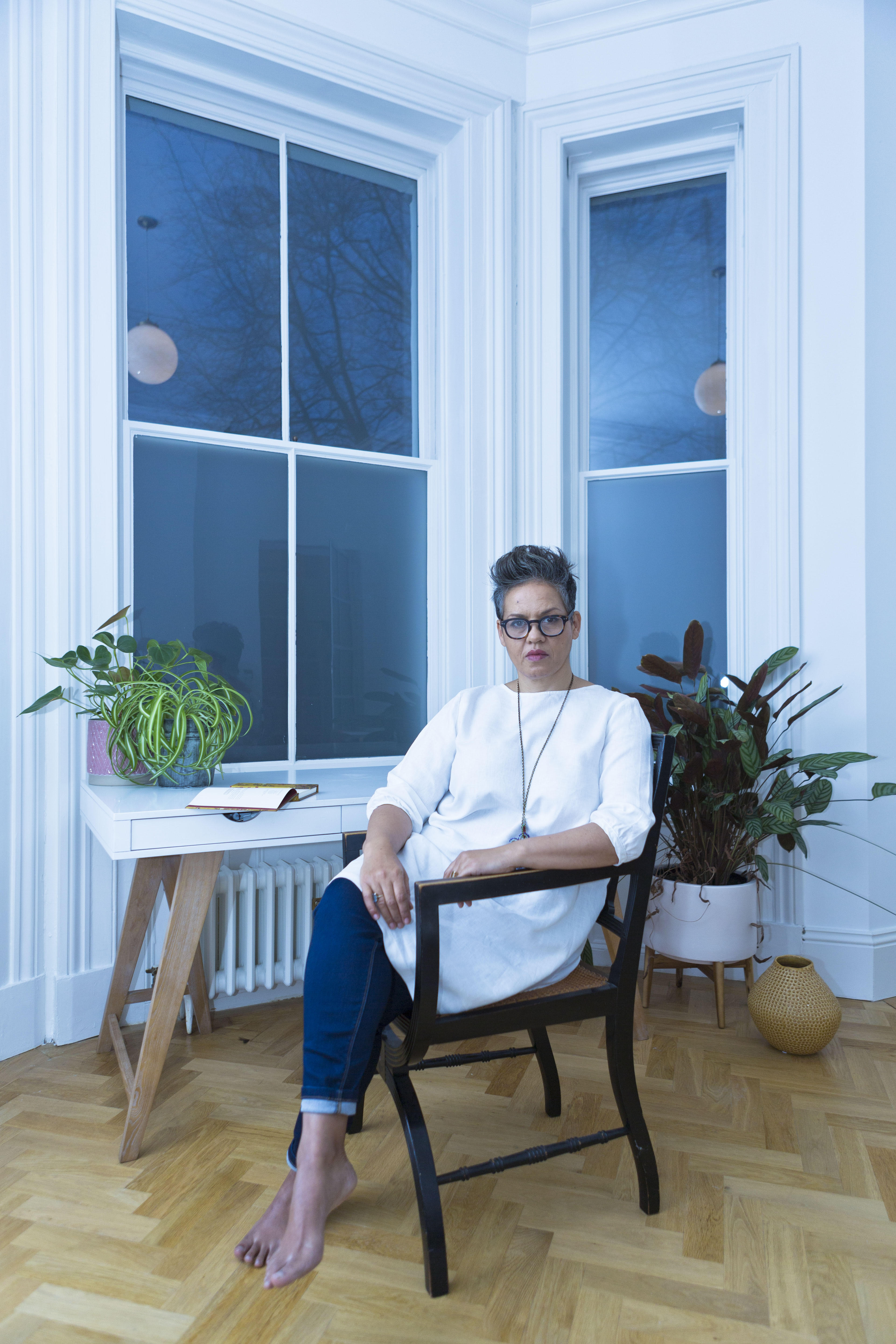 Kit de Waal, writer, 2020